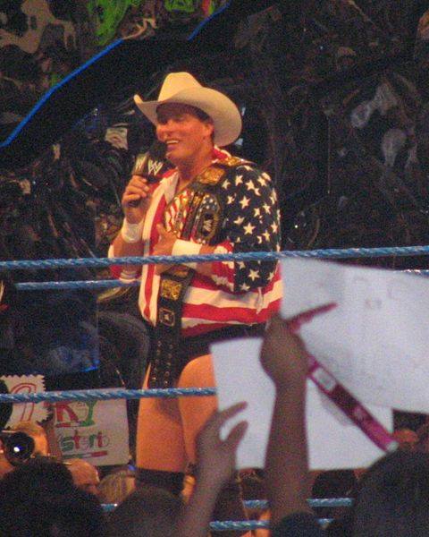 An image of JBL as US champion